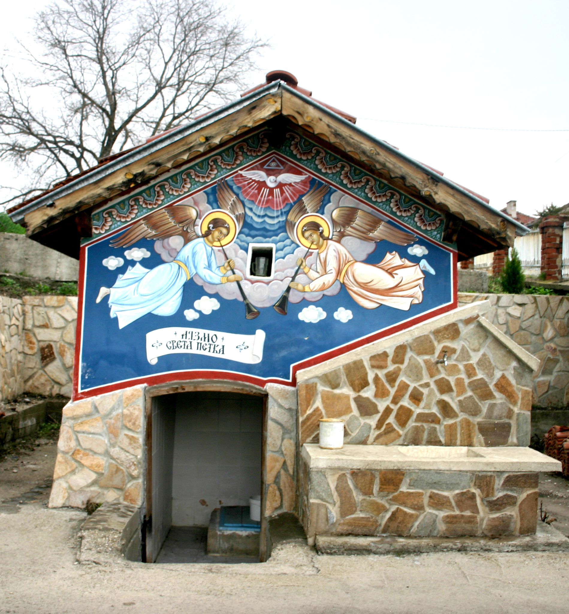 This photo is provided by the Historical Museum in Dupnitsa and is included in the album "Dupnitsa through the centuries" („Дупница през вековете“). Dupnitsa Municipality, Historical Museum - Dupnitsa. ISBN 978-954-8187-89-3.